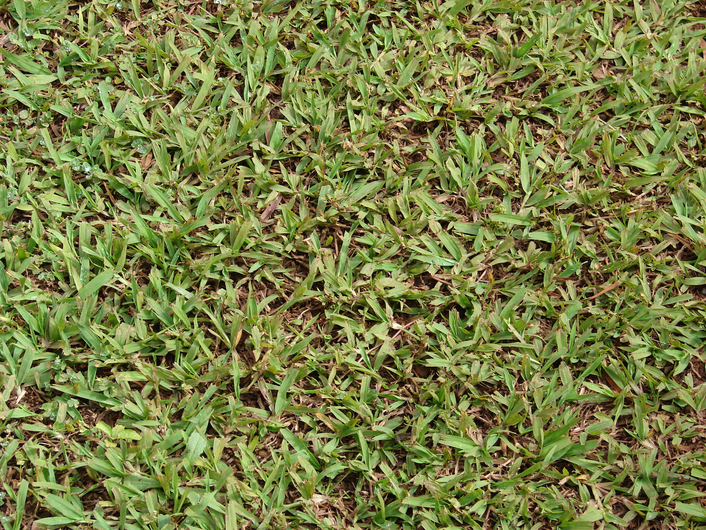 Paspalum conjugatum (habit). Location: Maui, Makawao